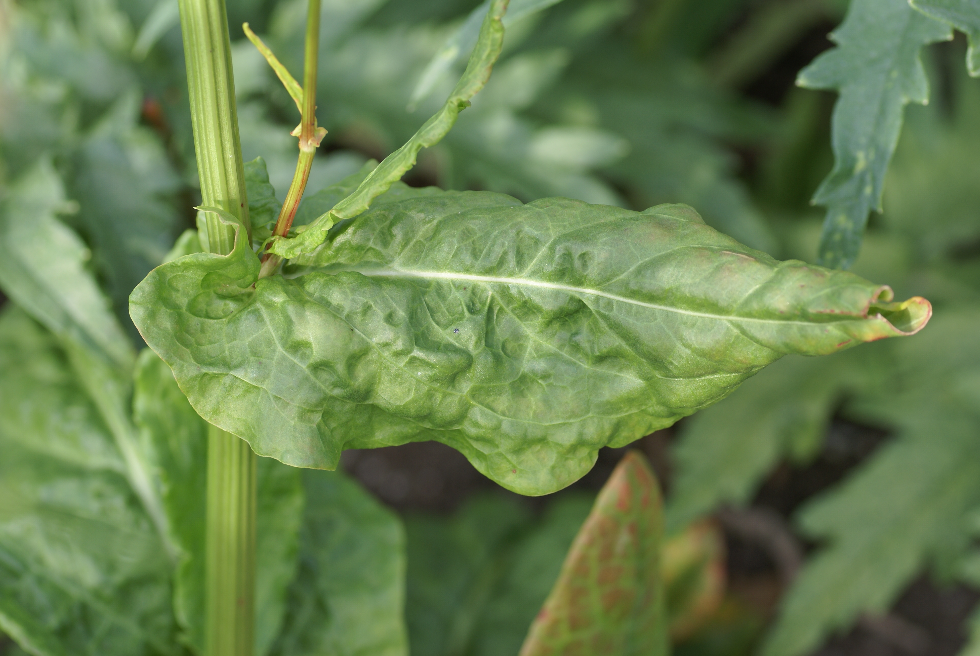 Plant species Rumex rugosus in botanical garden Bergianska trädgården in Stockholm, Sweden.